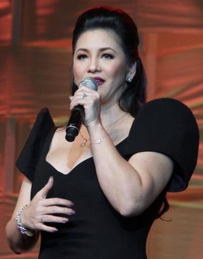 Regine Velasquez performing during the Jollibee Family Values Awards in 2015